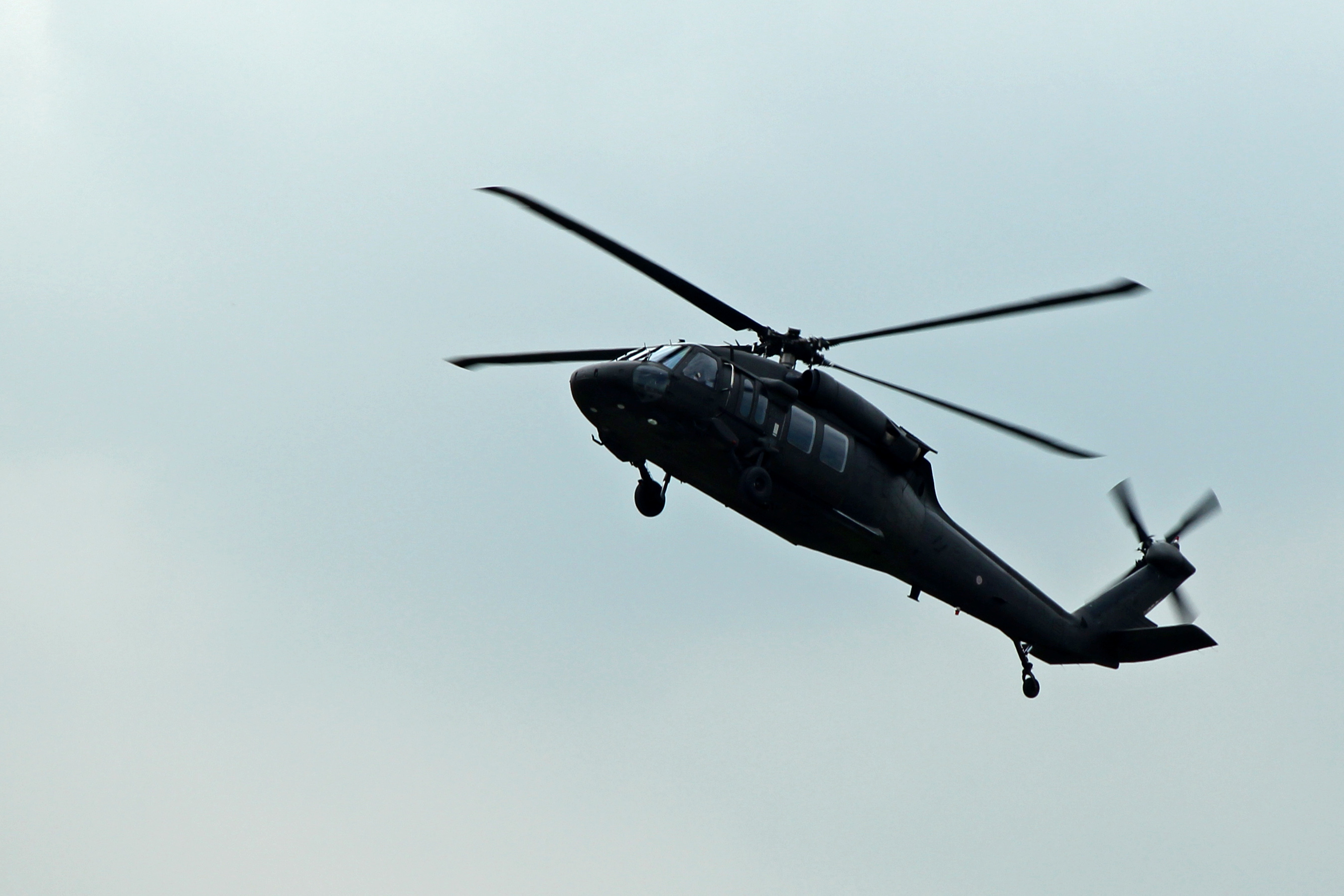 Royal Thai Army : UH-60L Black hawk During air show at Donmaung air force base , Thailand.